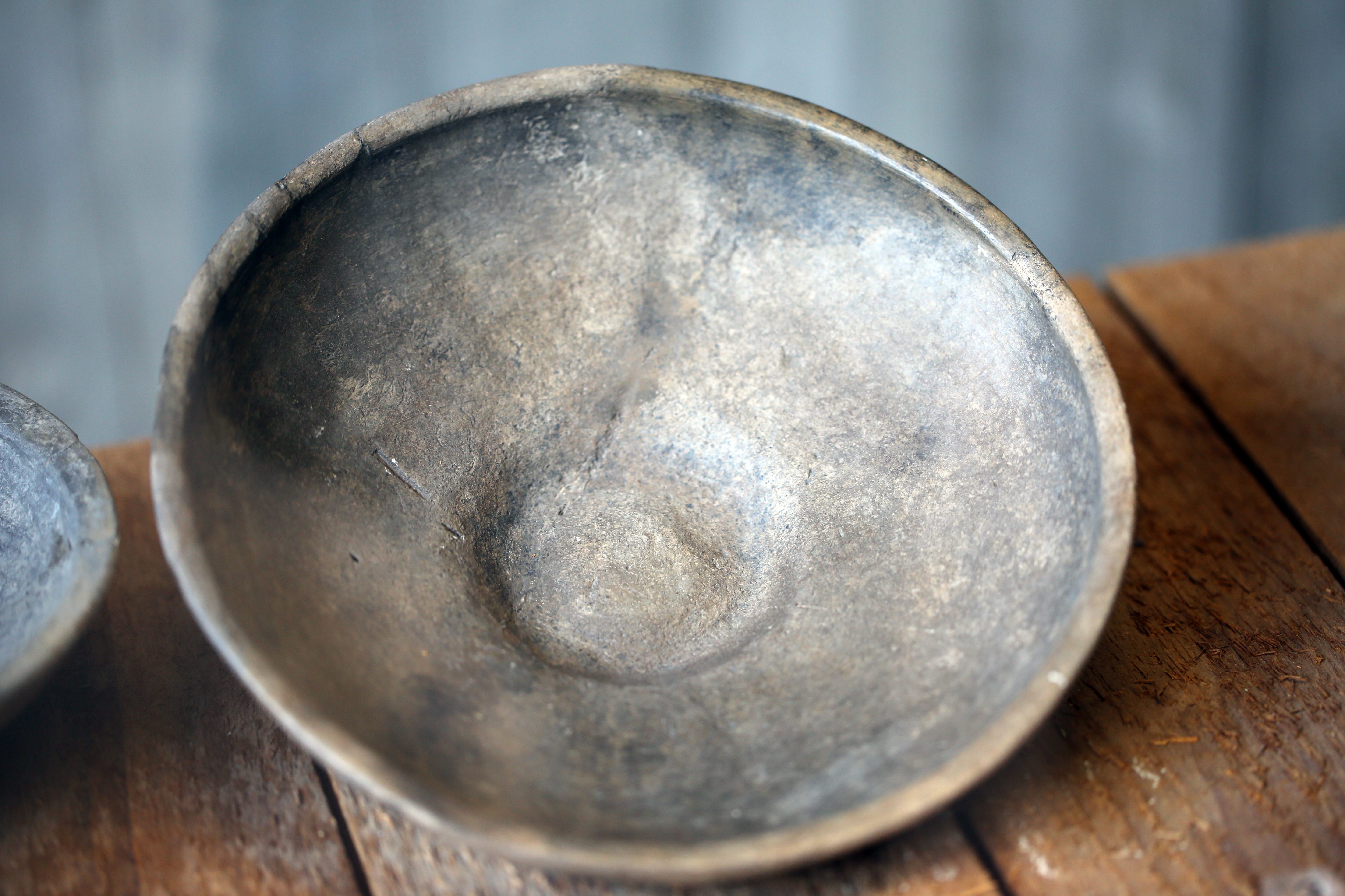 Iron Age ceramics of Niederkassel, Germany